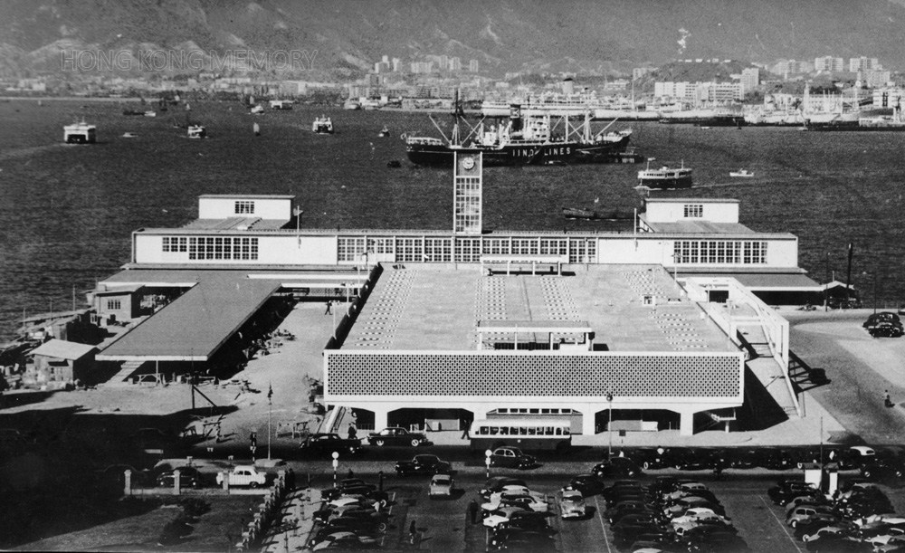 The photo was taken in the year both the Star Ferry Pier and its multi-storey car park at Edinburgh Place, Central was built and opened.